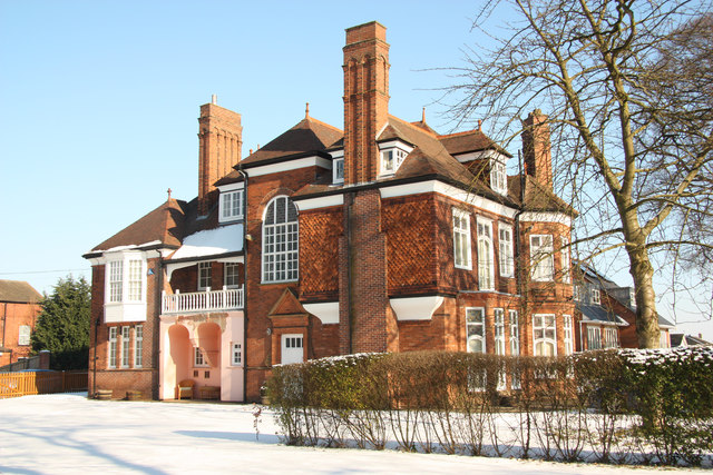 St.Nicholas House